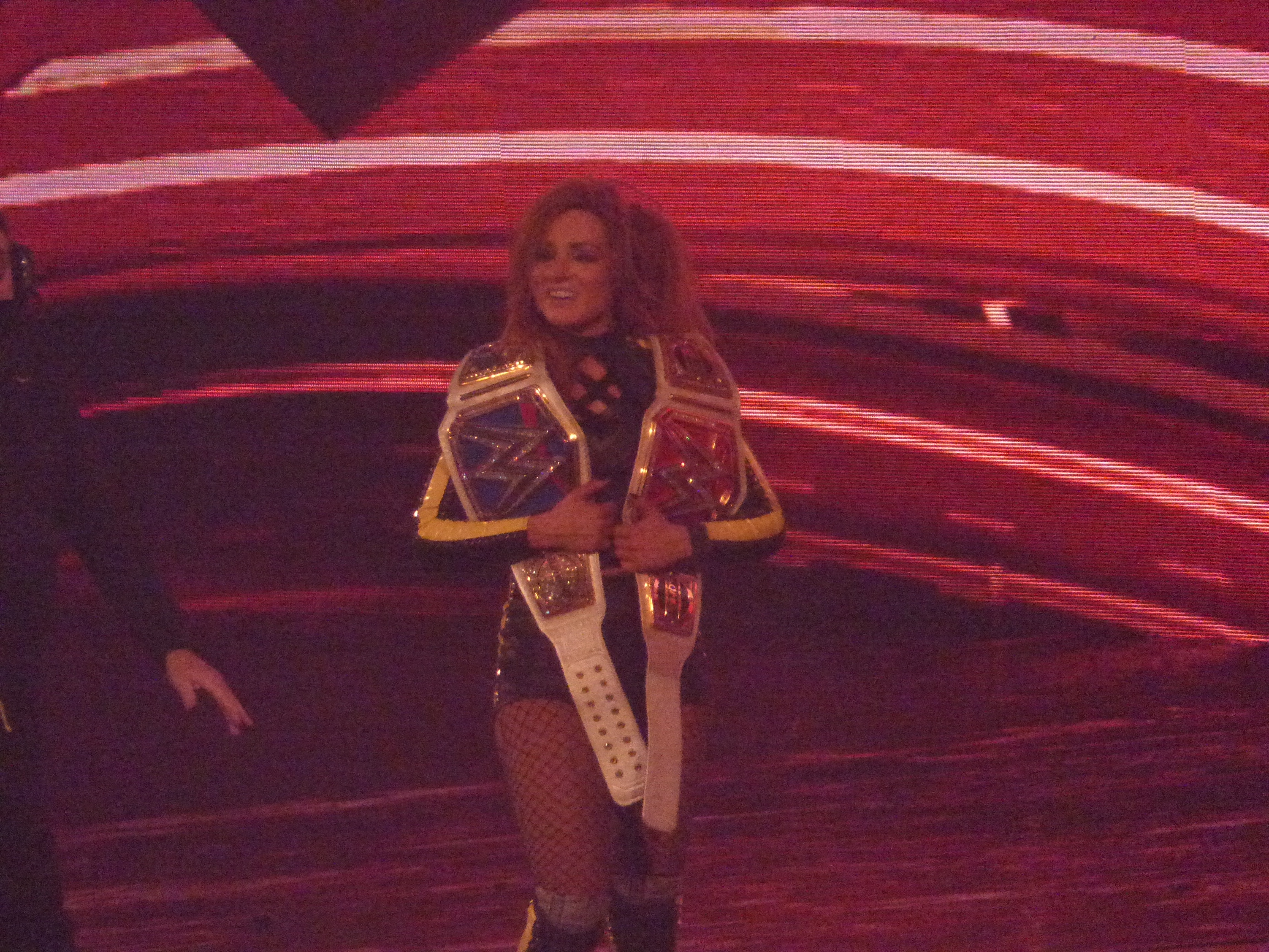 Professional wrestler Becky Lynch in April 2019